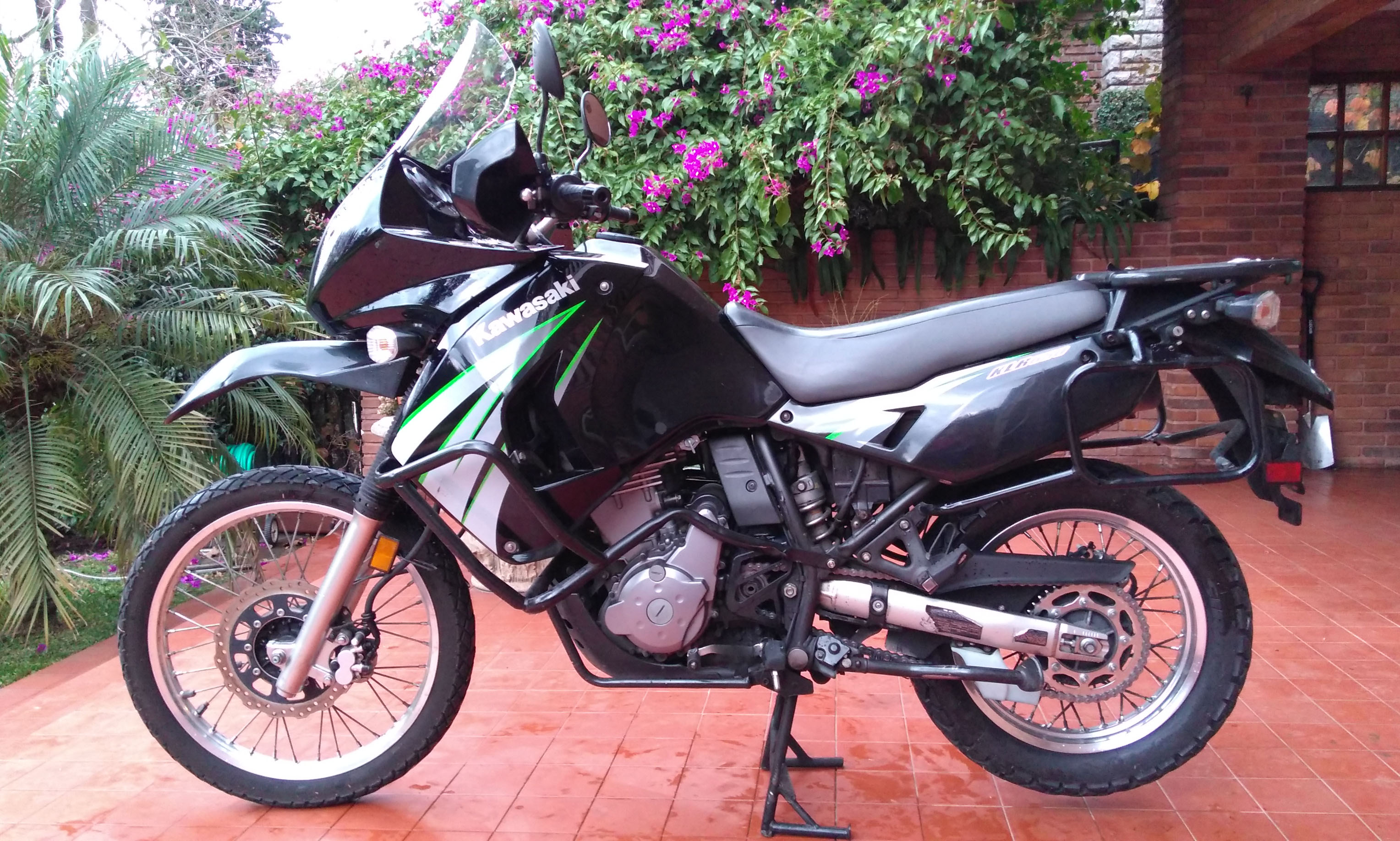 2009 Kawasaki KLR 650 motorcycle